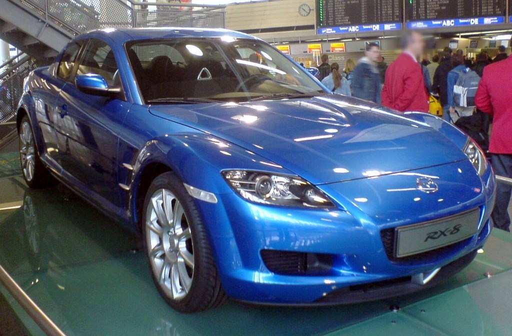 Mazda RX-8 at Frankfurt/Main Airport